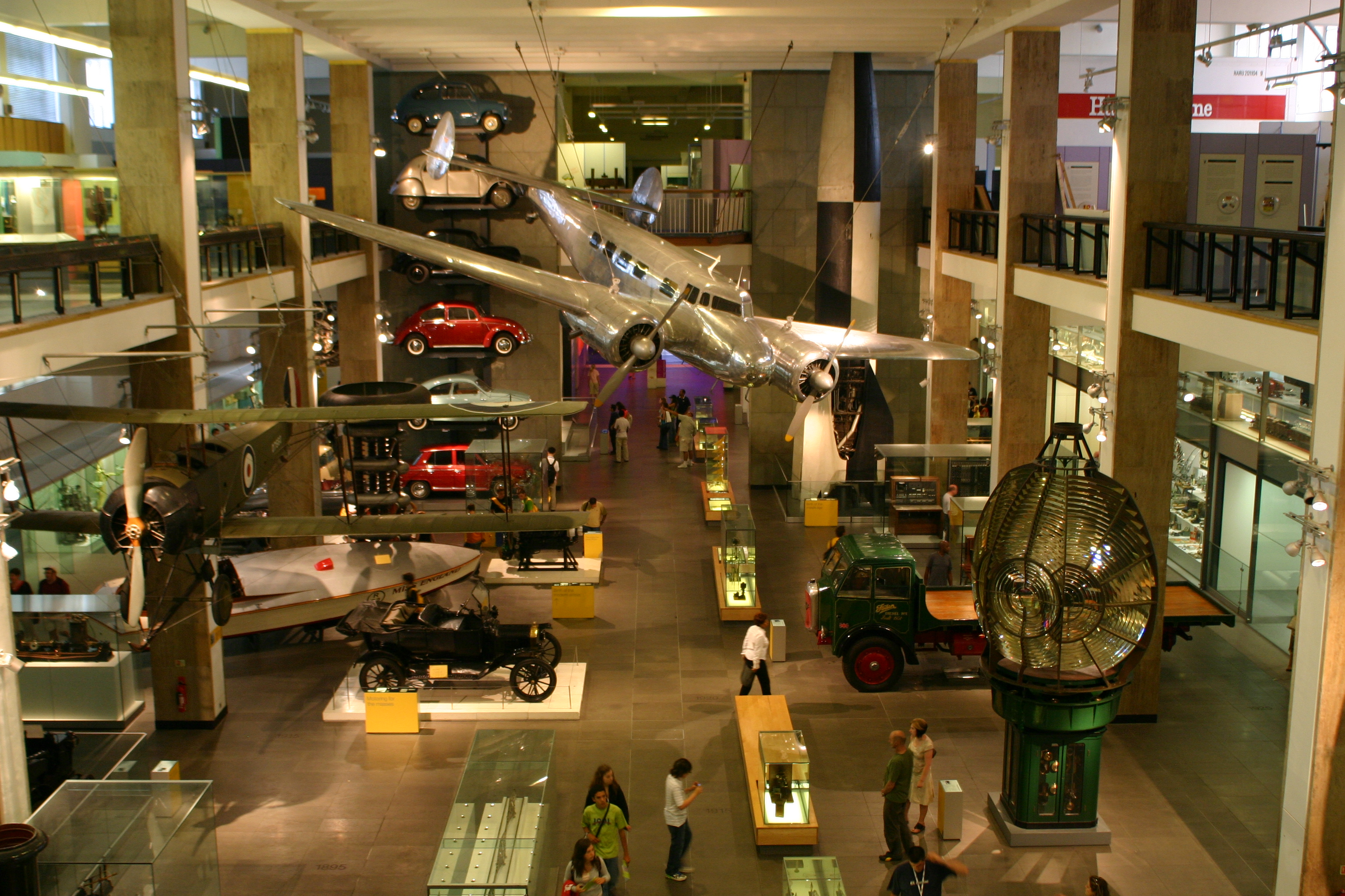 Summary: Science Museum, London, Transportation zone Author: redjar